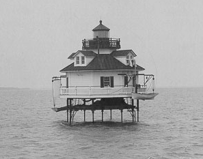 Undated United States Coast Guard photograph of the second Craney Island Light (original here) cropped and converted to PNG format